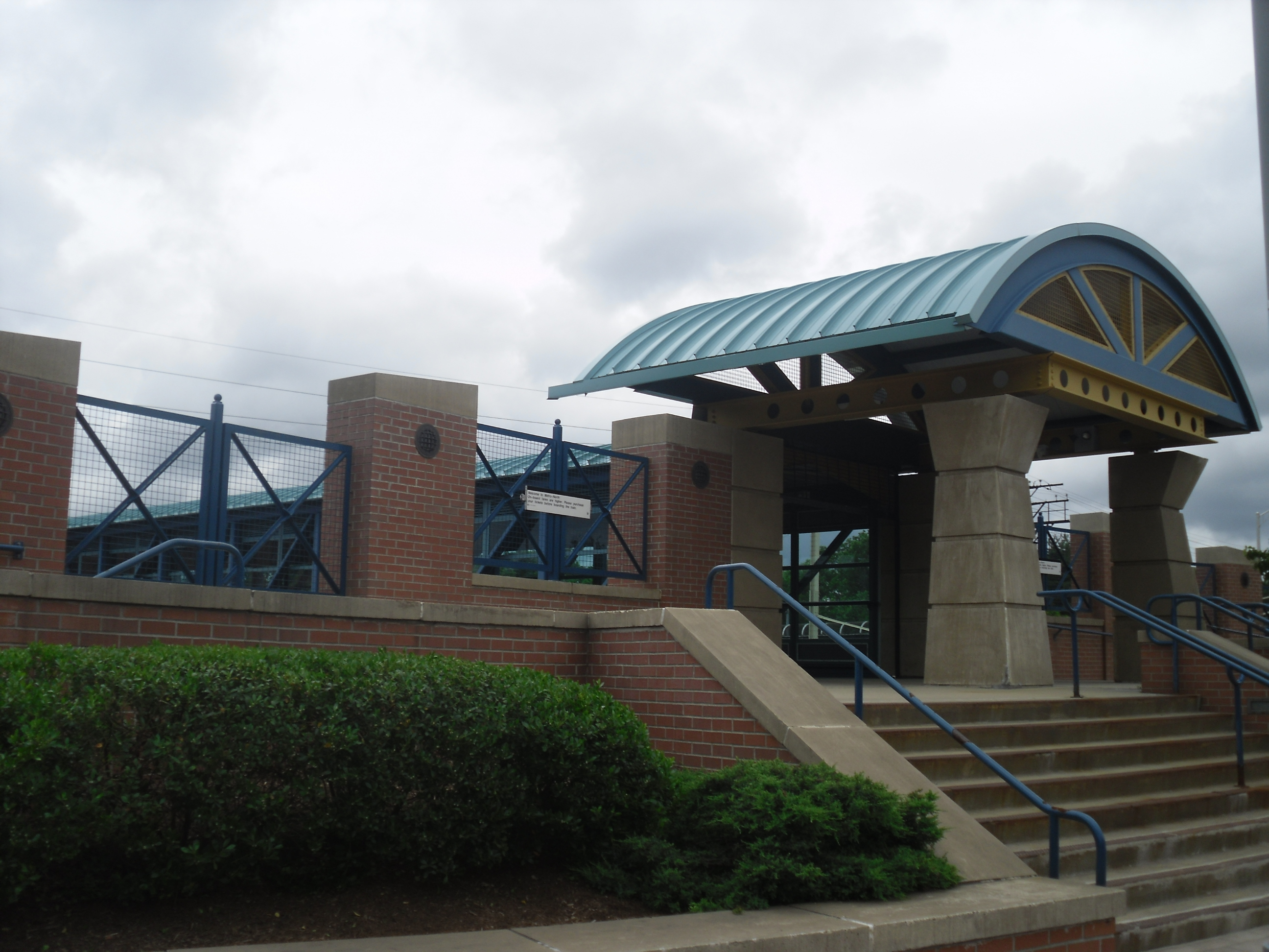 Front Entrance of New Haven-State Street Station.